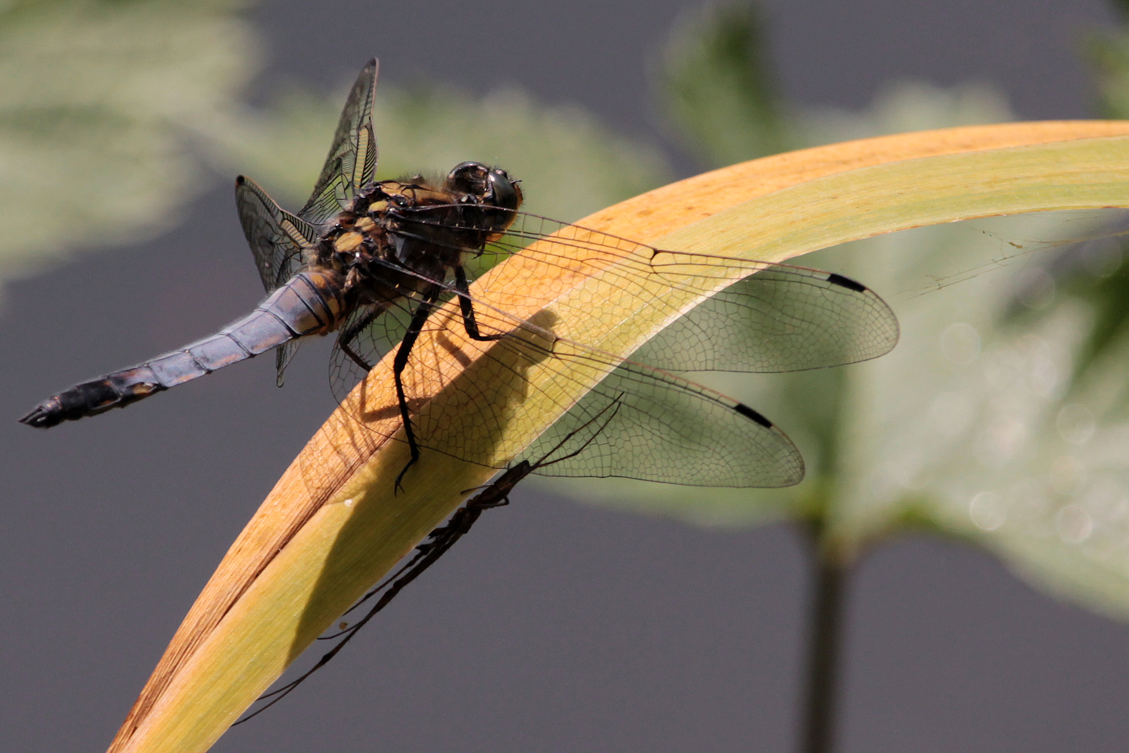 Black-tailed skimmer (Orthetrum cancellatum)